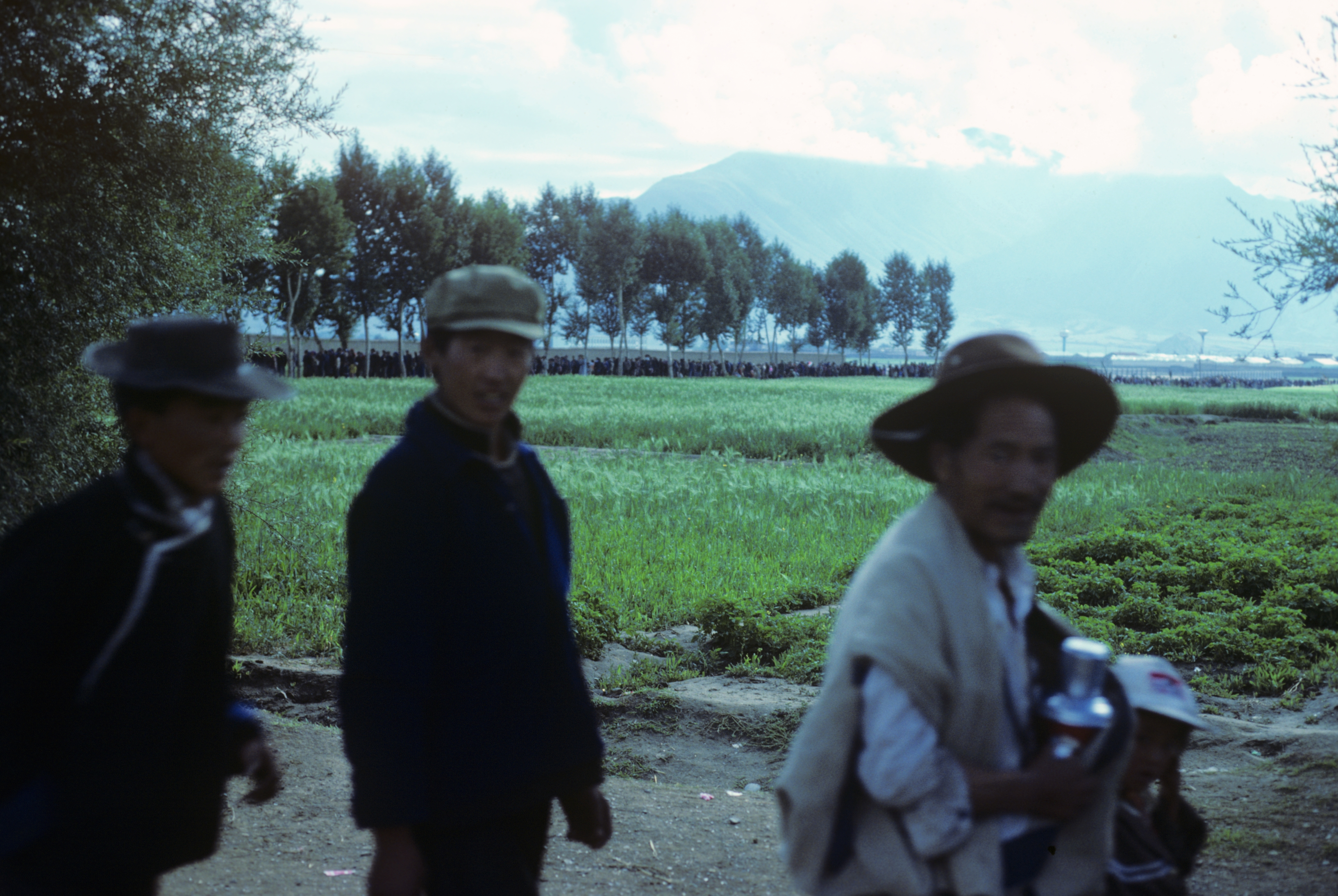 Thousands of Tibetan people had walked for days to be touched on the head by the Panchen Lama as a blessing. The line of people in the picture goes way off into the distance